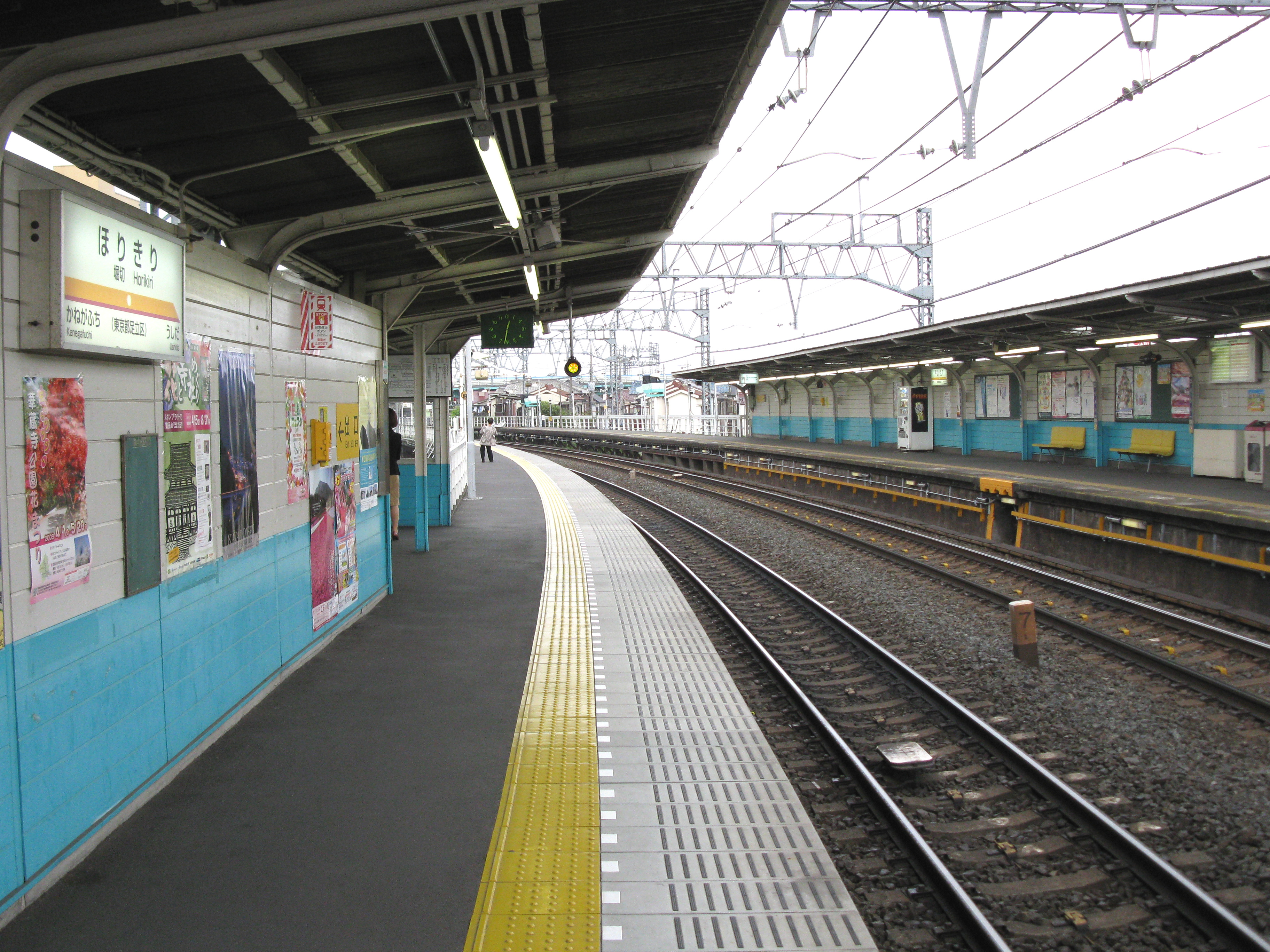 The platforms at Horikiri Station on the Tōbu Railway Isesaki Line